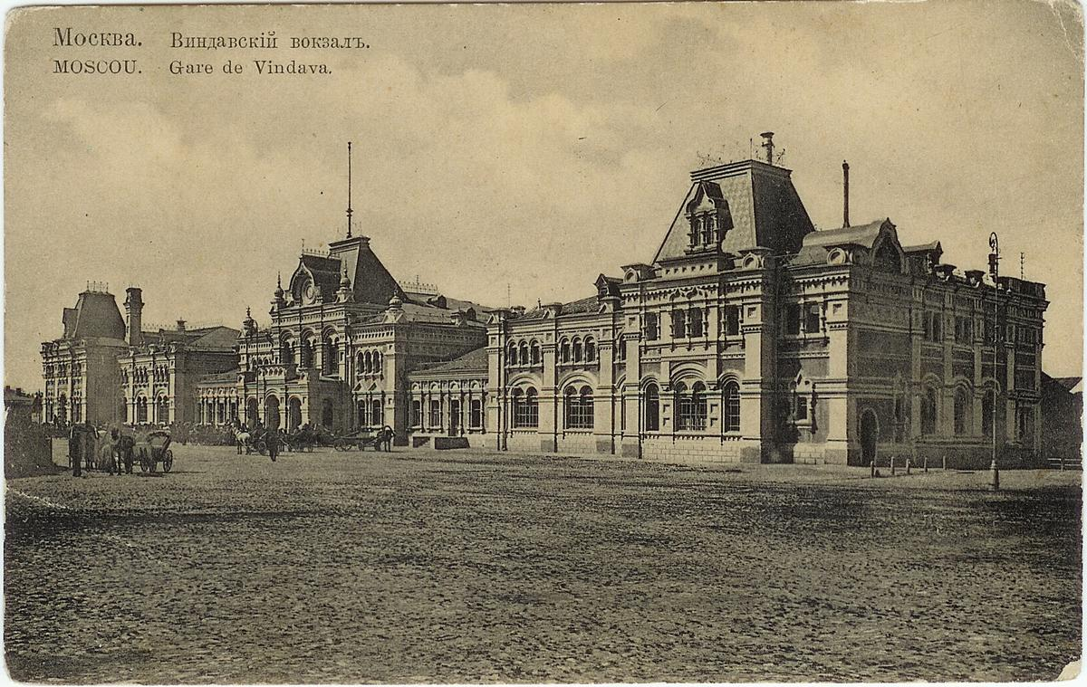 pre-revolutionaty russian postcard of Vindavsky (Rizhsky) Rail Terminal